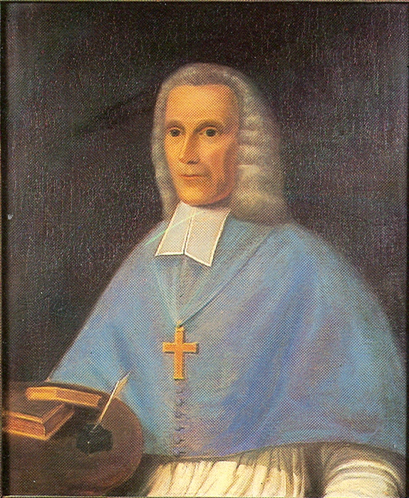 Painting of Bishop Richard Challoner.